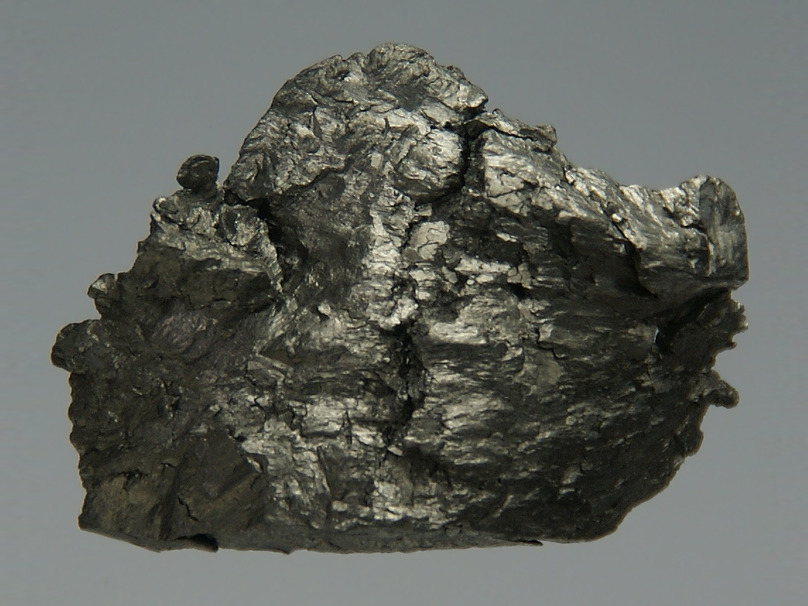 Pure (99.95%) amorphous Gadolinium, about 12 grams, 2 × 1.5 × 0.5 cm, cast in acrylic glass.